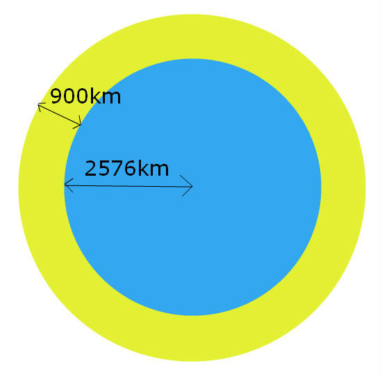 Simple illustration of the radius of Titan and its atmosphere